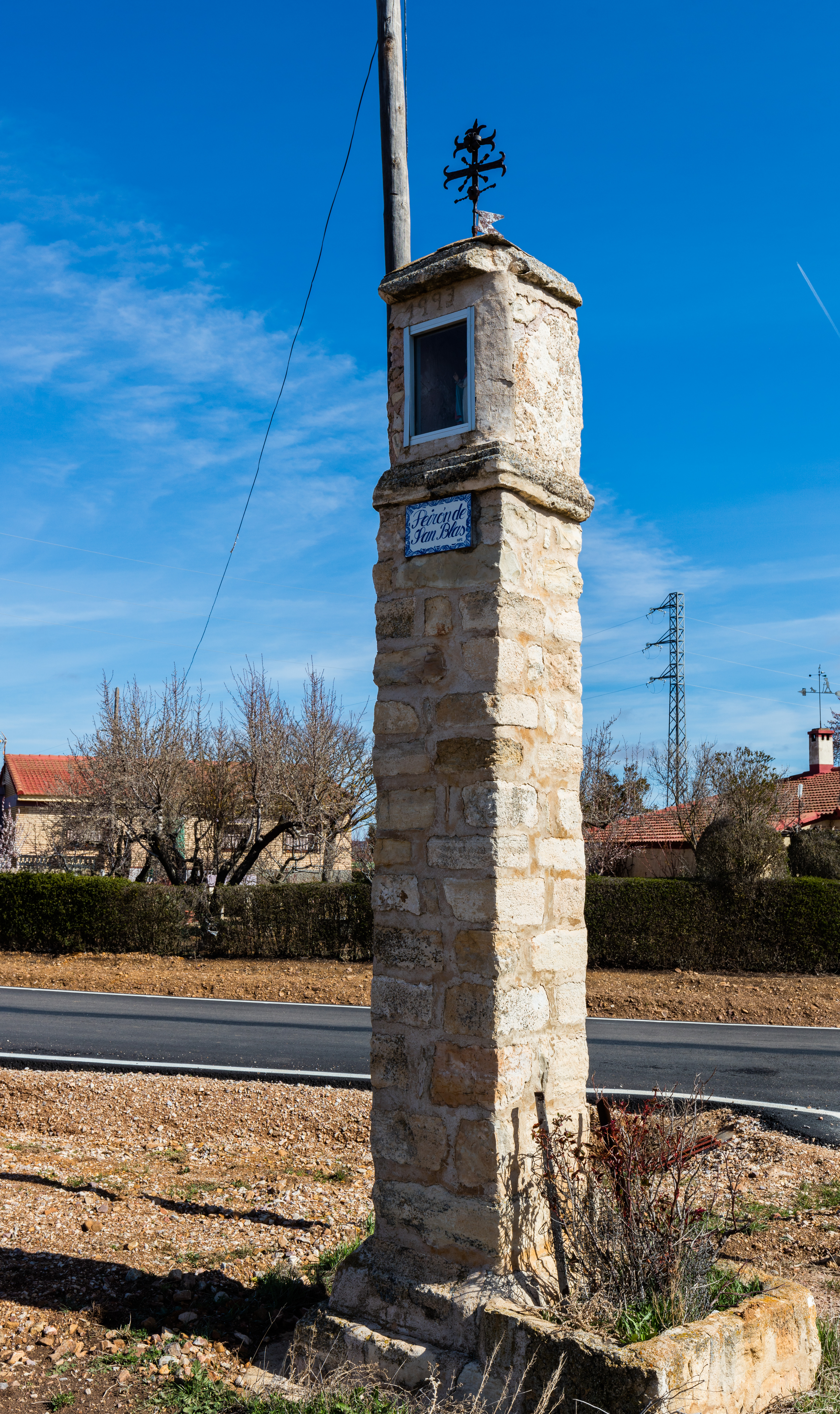 Wayside cross of St Blas, Torralba de los Frailes, Zaragoza, Spain